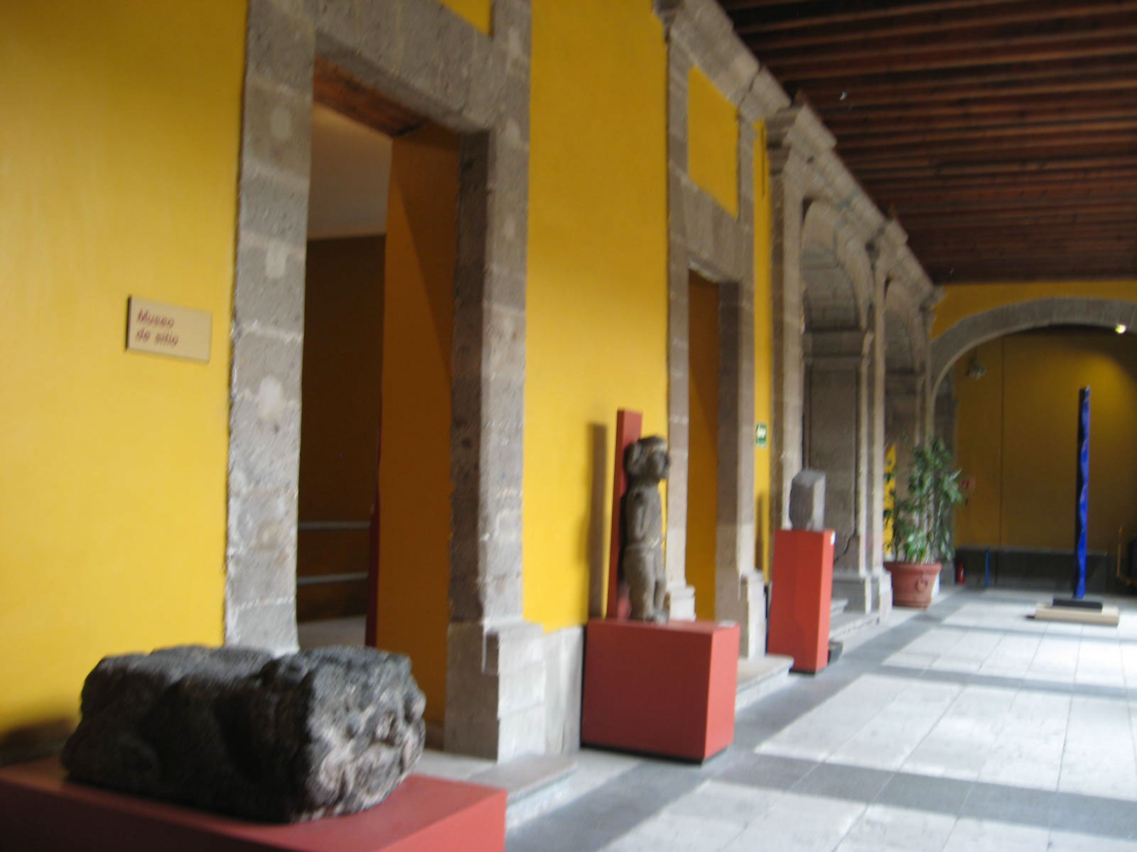 Hallway dedicated to the site of the Museum of the SHCP, displaying pre-hispanic artifacts found at the site.